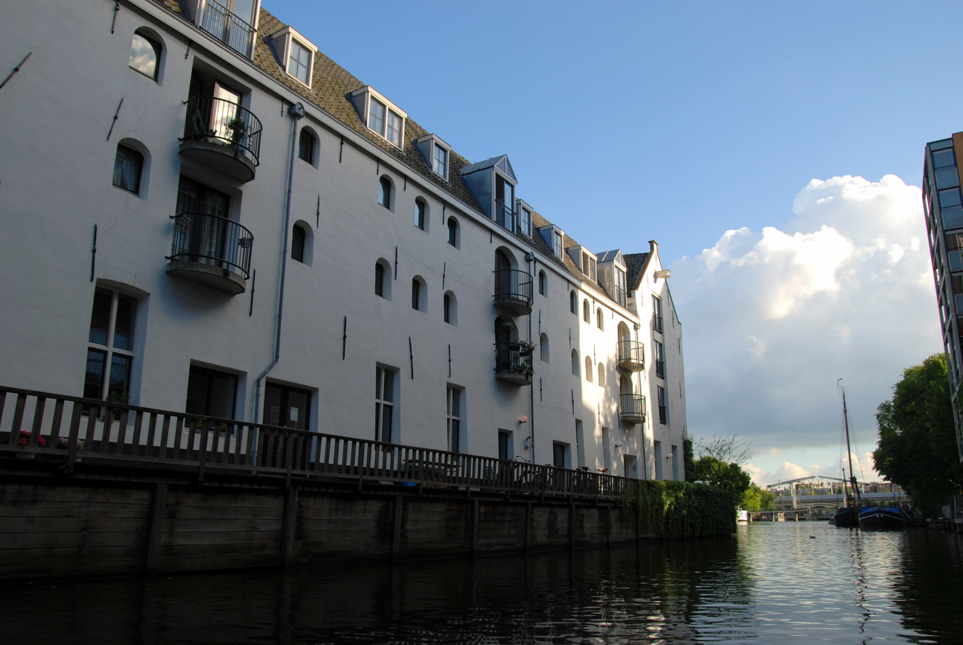 A small canal in the area of Amsterdam called the Westelijke Eilanden (the western islands). To the left is a former warehouse (now apartments) on Realeneiland.